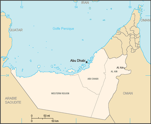 Abu Dhabi Emirate within the United Arab Emirates, with subdivision into three regions